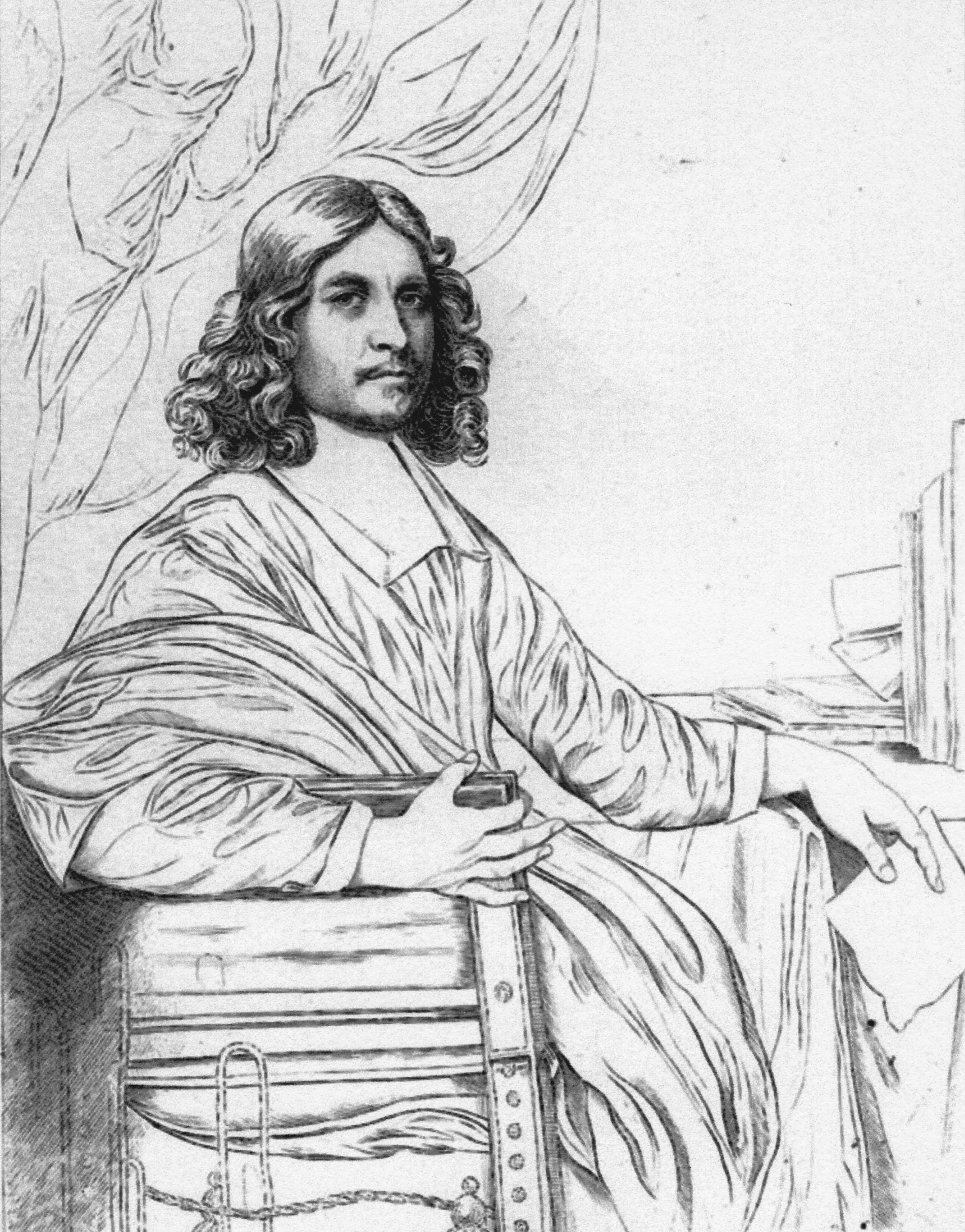 Drawing from painting dated 1665